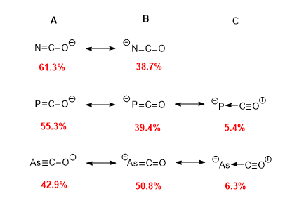 A graphic depicting the different resonance forms of the NCO, PCO and AsCO anions. The weights of the different resonance forms are indicated below.